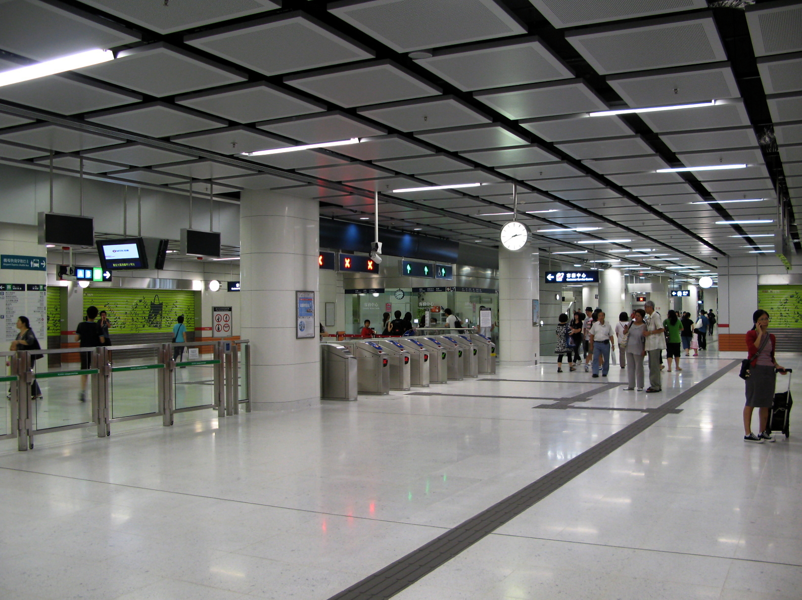 HK Austin Station 柯士甸站